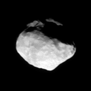 The small moon Helene (33 kilometers, 21 miles across) leads Dione by 60 degrees in the moons' shared orbit. Helene is a "Trojan" moon of Dione, named for the Trojan group of asteroids that orbit 60 degrees ahead of and behind Jupiter as it circles the Sun. The image was taken in visible light with the Cassini spacecraft narrow-angle camera on Nov. 24, 2008 at a distance of approximately 68,000 kilometers (42,000 miles) from Helene and at a Sun-Helene-spacecraft, or phase, angle of 30 degrees. Image scale is 408 meters (1,338 feet) per pixel. The Cassini Equinox Mission is a joint United States and European endeavor. The Jet Propulsion Laboratory, a division of the California Institute of Technology in Pasadena, manages the mission for NASA's Science Mission Directorate, Washington, D.C. The Cassini orbiter was designed, developed and assembled at JPL. The imaging team consists of scientists from the US, England, France, and Germany. The imaging operations center and team lead (Dr. C. Porco) are based at the Space Science Institute in Boulder, Colo. For more information about the Cassini Equinox Mission visit and The original NASA image has been modified by cropping, doubling the linear pixel density and sharpening.